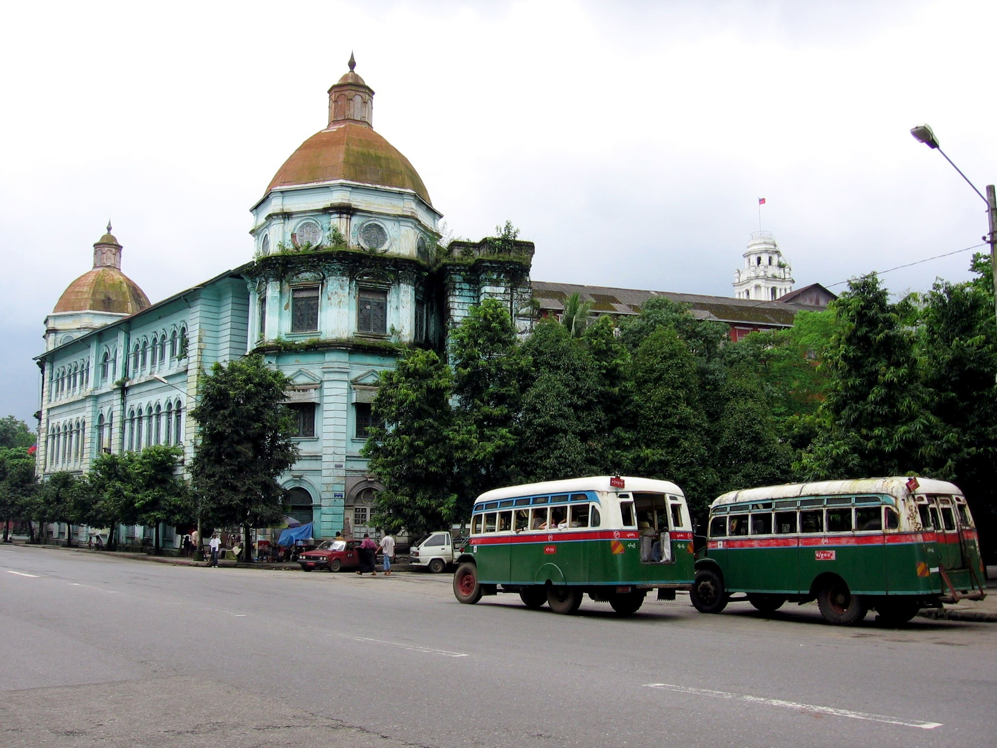 Streets of Yangon, Myanmar.